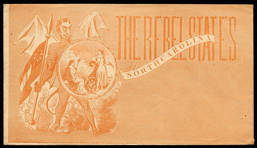 Pictorial envelope produced during the American Civil War showing the Devil holding the North Carolina state seal and a Confederate flag. Courtesy of the LIbrary of Congress and the New-York Historical Society. Image courtesy of .